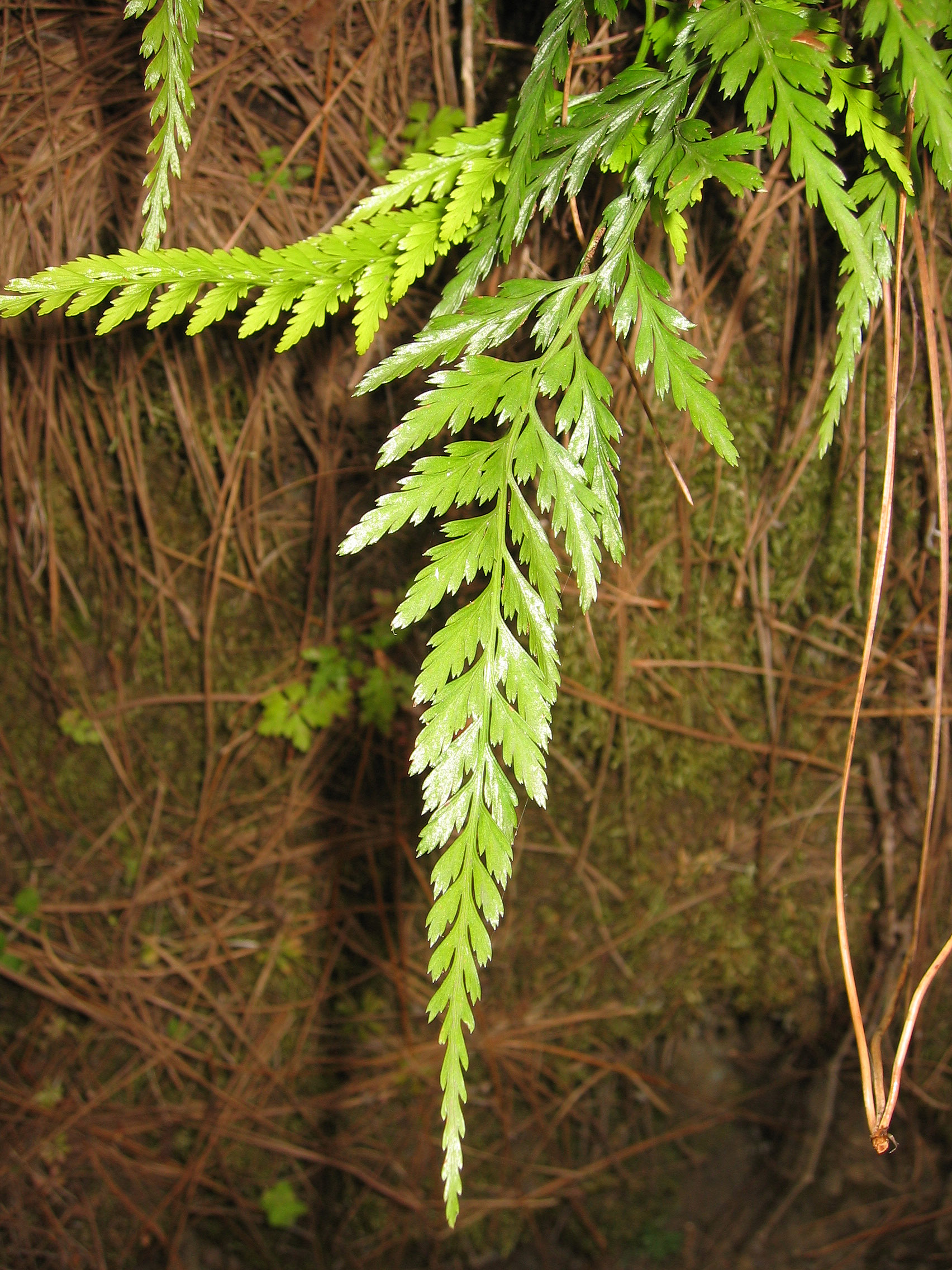 Asplenium onopteris, Near Refugio del Pilar, La Palma, Spain